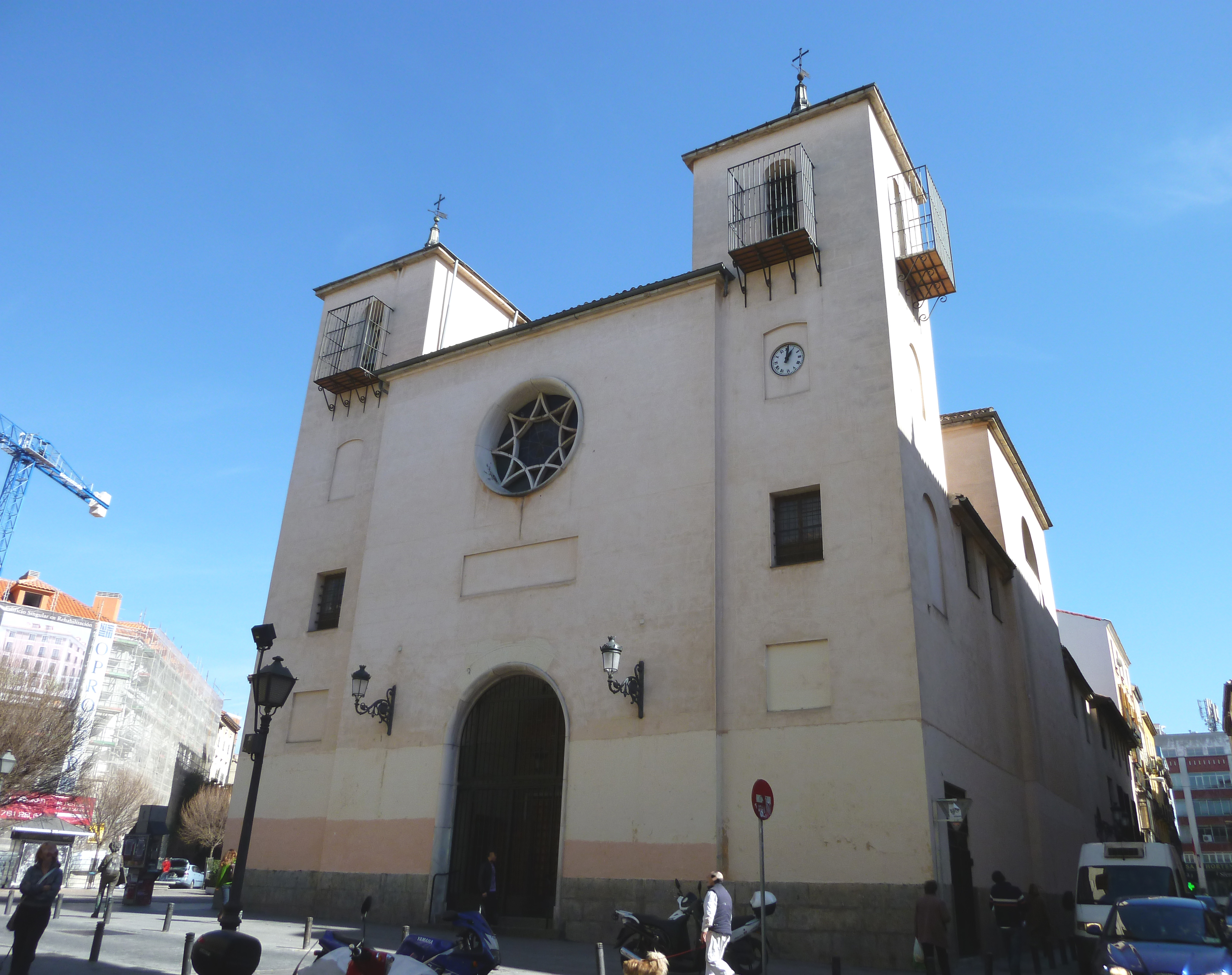 Façade of Saint Ildephonsus Church in Madrid (Spain).